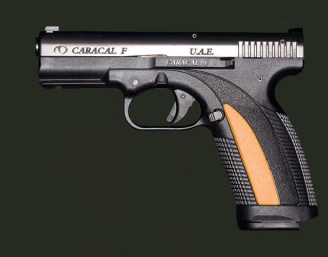 Caracal F Pistol superimposed over the Springfield Armory XD pistol contour.